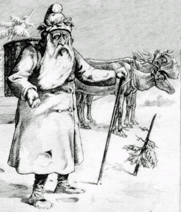 Santa in the snow